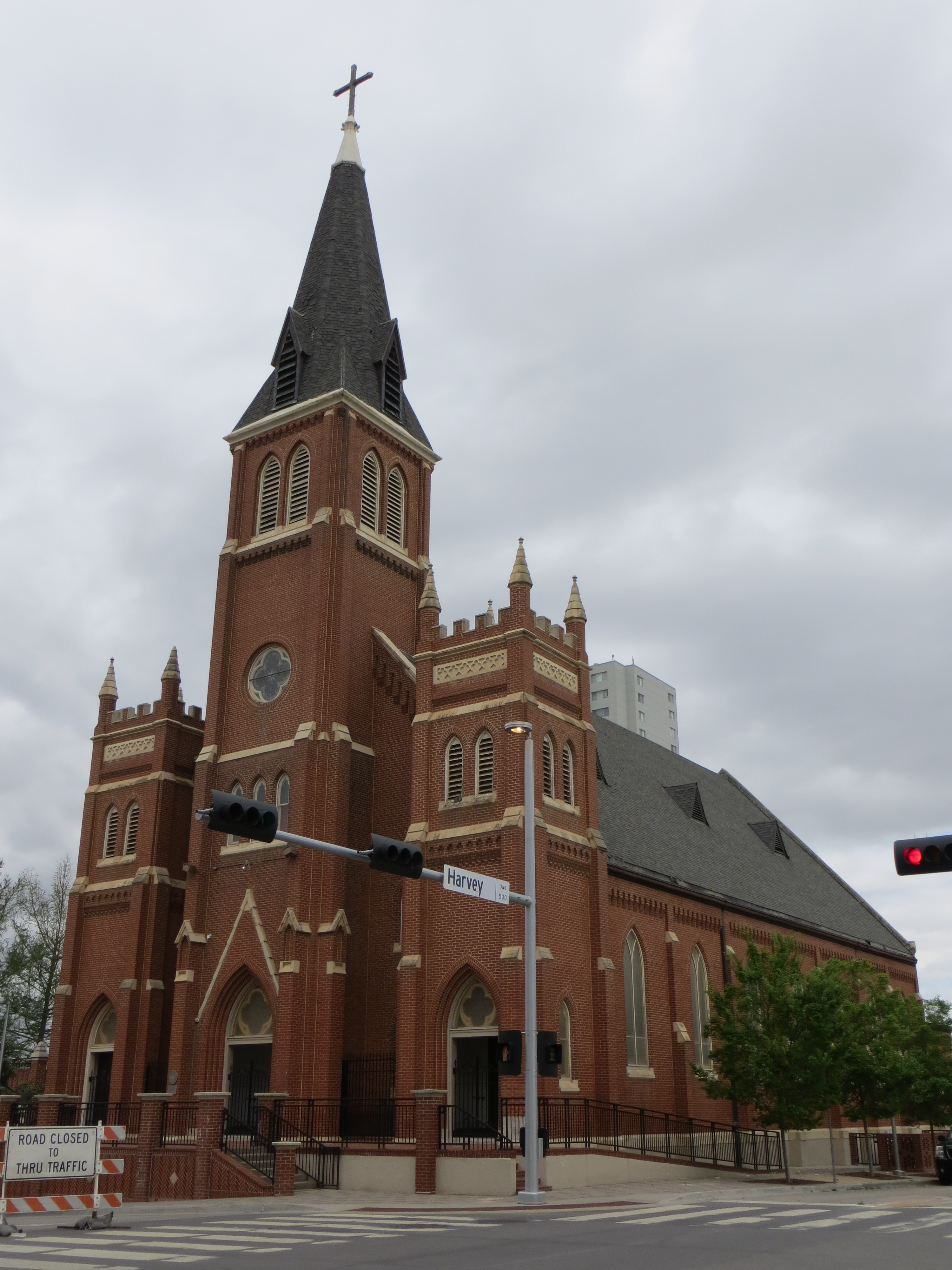 St. Joseph Old Cathedral, 225 4th St. NW., Oklahoma City, Oklahoma, USA